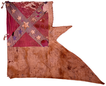 Brigadier General Bradley T. Johnson's Headquarters Guidon captured by the 1st Regiment Cavalry, New York Volunteers during encounter on August 7, 1864, at Moorefield, West Virginia.